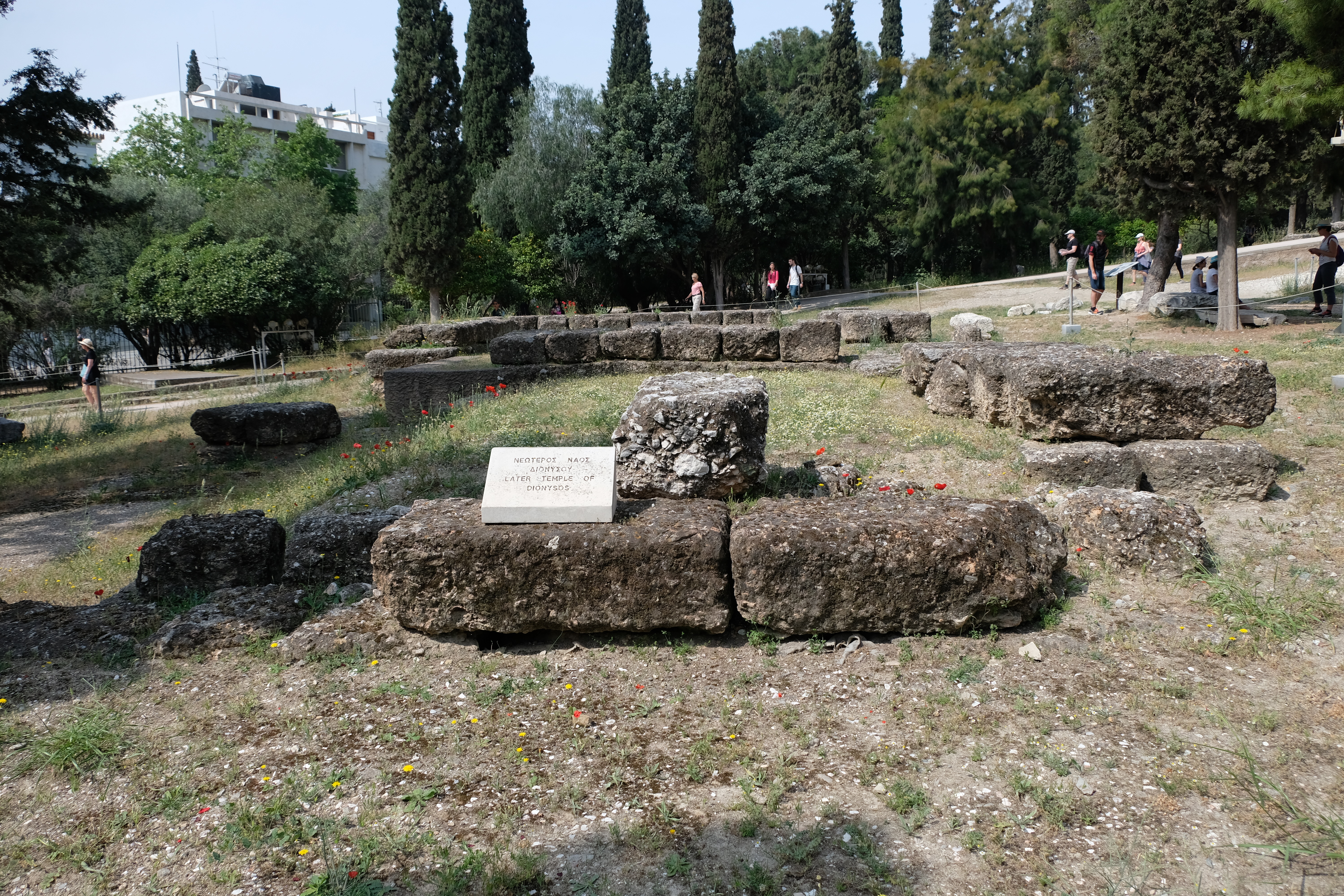 Sanctuary of Dionysus Eleuthereus